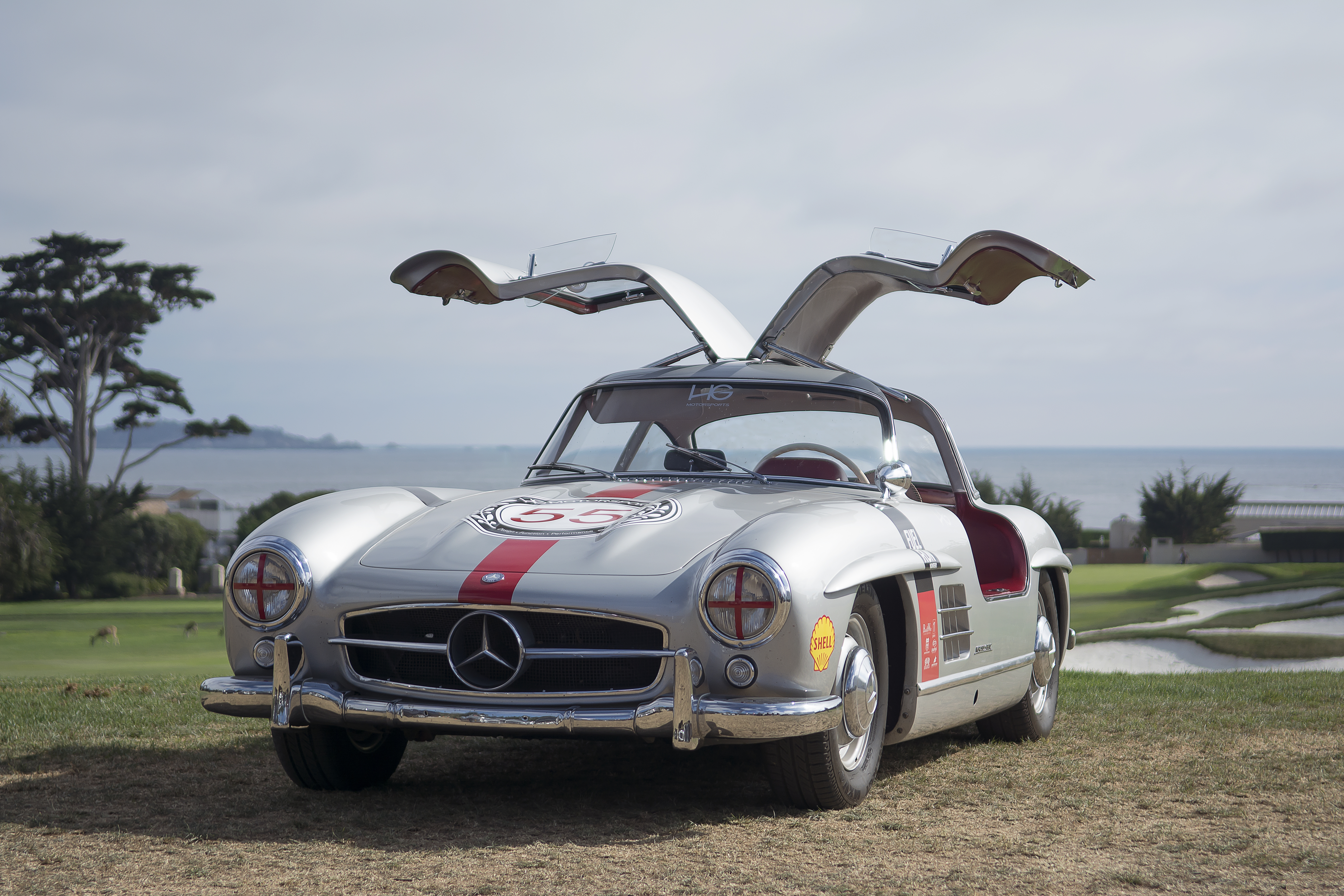 HG Motorsports Mercedes Benz 300SL parked on the green in Pebble Beach. (cc) Creative Commons Personal and Commercial with Attribution. If you use this photo make sure you source with a link back to my site at